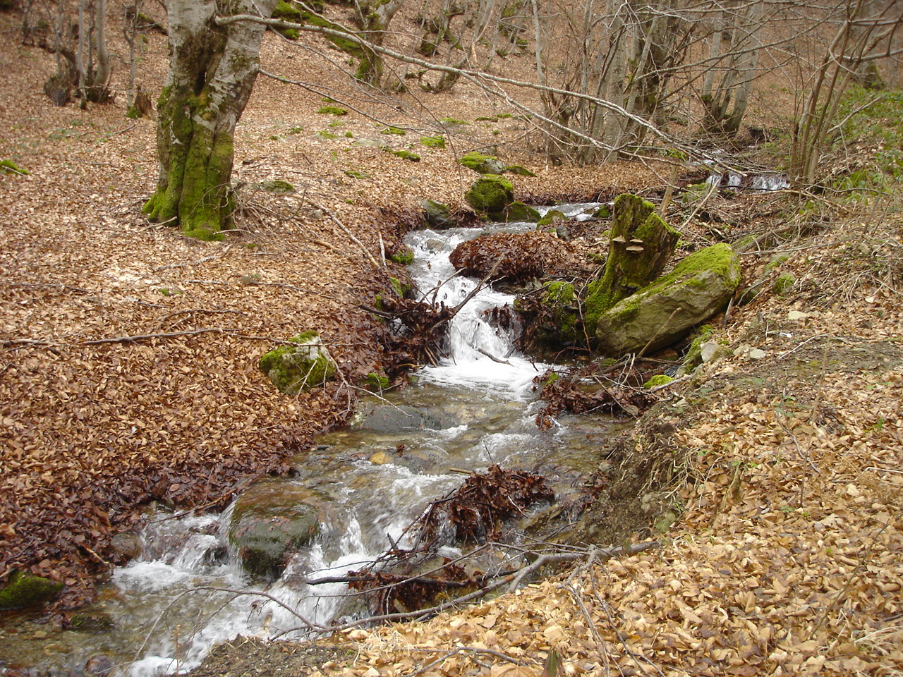 The stream in the village of Golemo Ilino in Demir Hisar Municipality, Macedonia